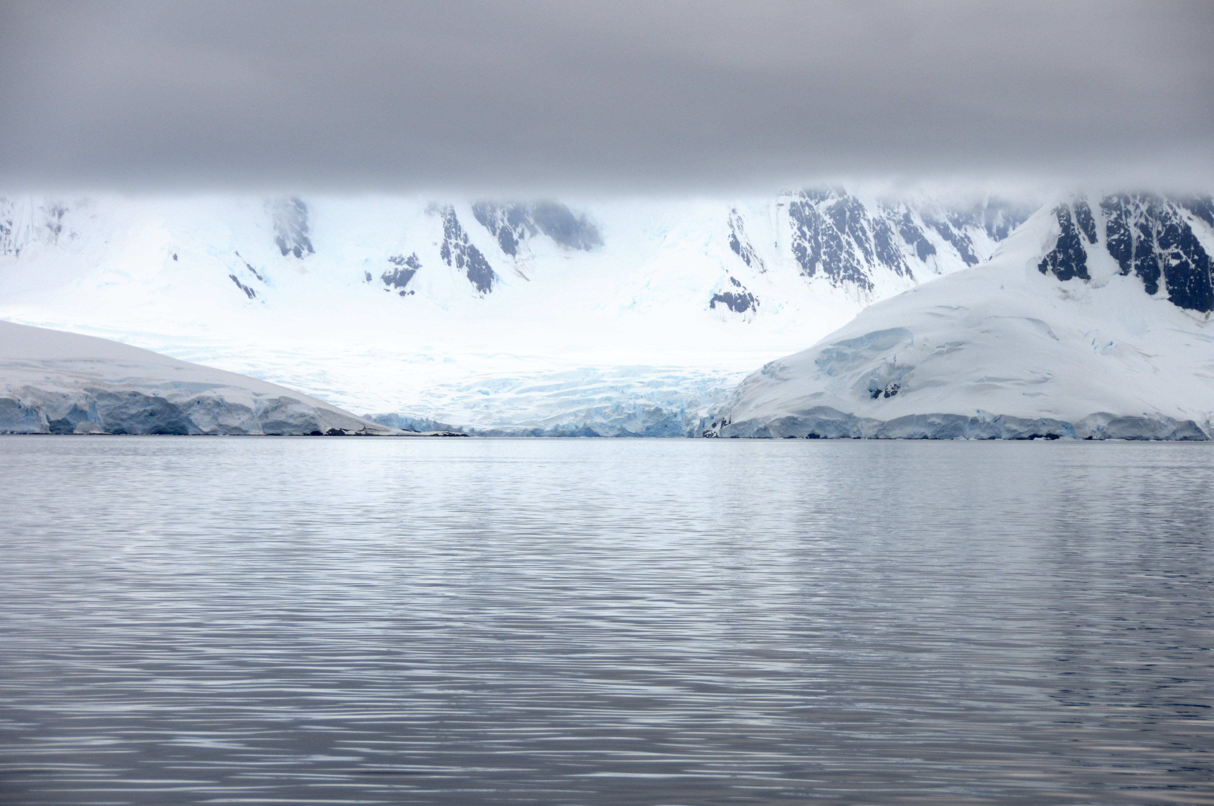 Neumayer channel, Antarctic Peninsula